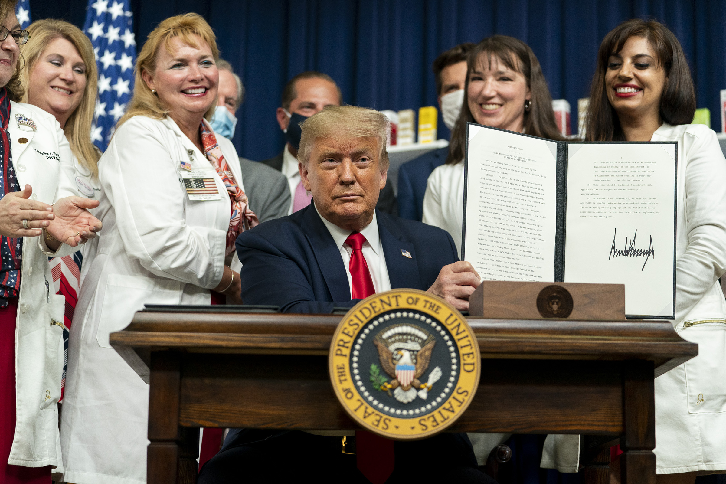 President Donald J. Trump is applauded as he displays his signature after signing Executive Orders on lowering drug prices Friday, July 24, 2020, in the South Court Auditorium in the Eisenhower Executive Office Building at the White House. (Official White House Photo by Shealah Craighead)